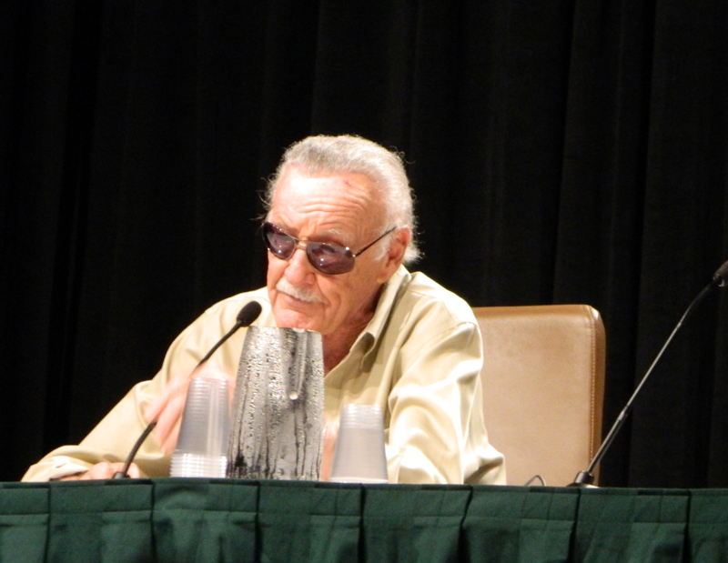 Stan Lee DragonCon 2012